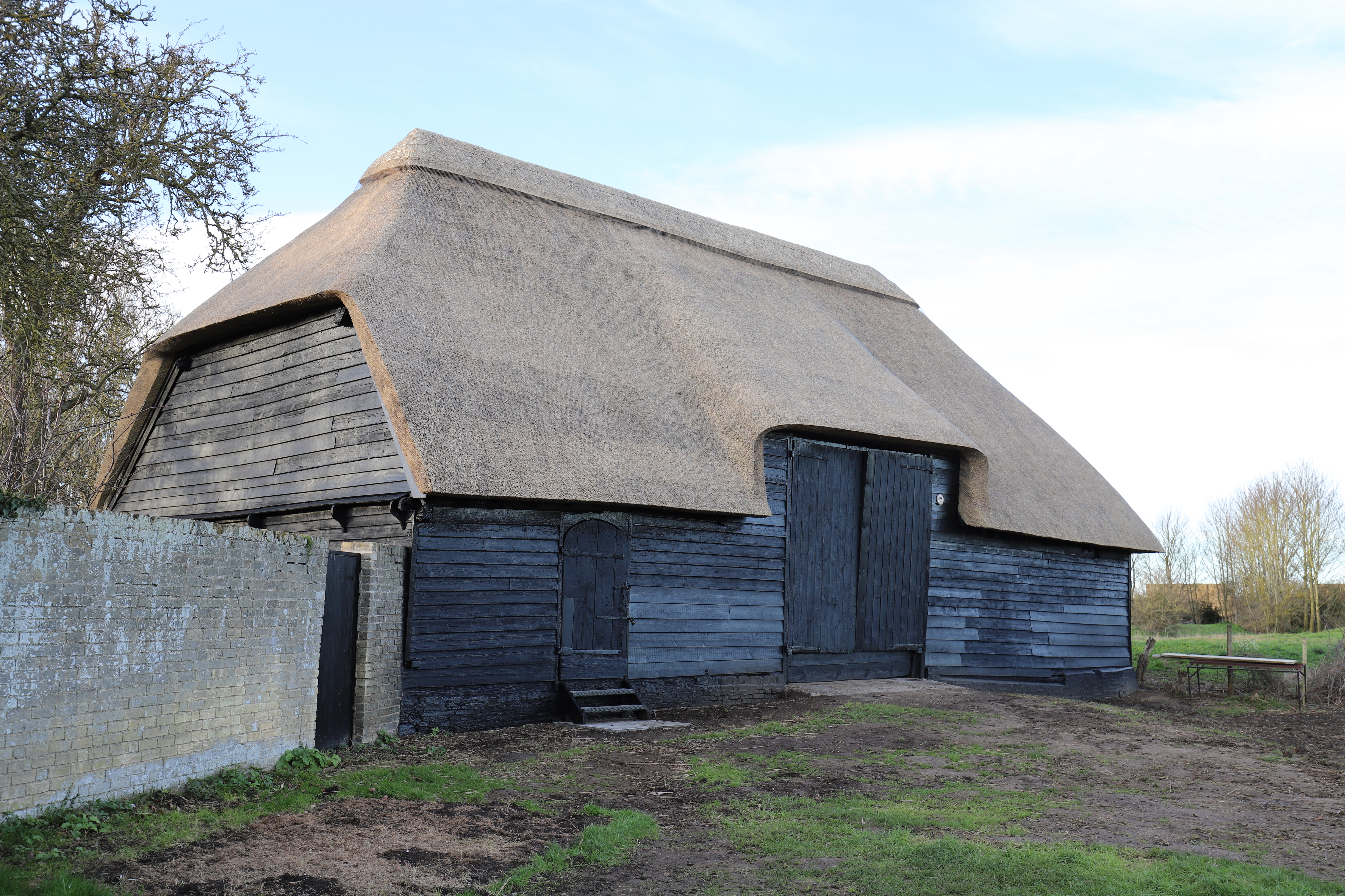 Landbeach Tithe Barn, Cambridgeshire, England. 16th century or earlier.